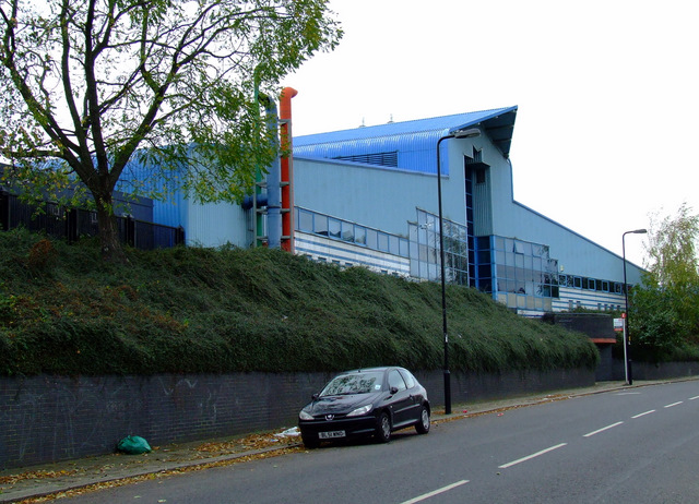 Frank Pick House, Bollo Lane, Acton, near Acton Town tube station. Named after the London Passenger Transport Board's chief executive Frank Pick, this is home to one of London Underground's engineering department.